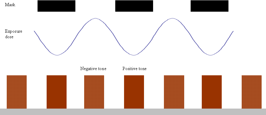 Dual-tone photoresist crosslinks or undergoes acid-quenching in regions of highest exposure, becoming insoluble to developer. At the same time, the regions of lowest exposure are also insoluble, thus allowing the intermediate exposure regions defining the edges to be printed.